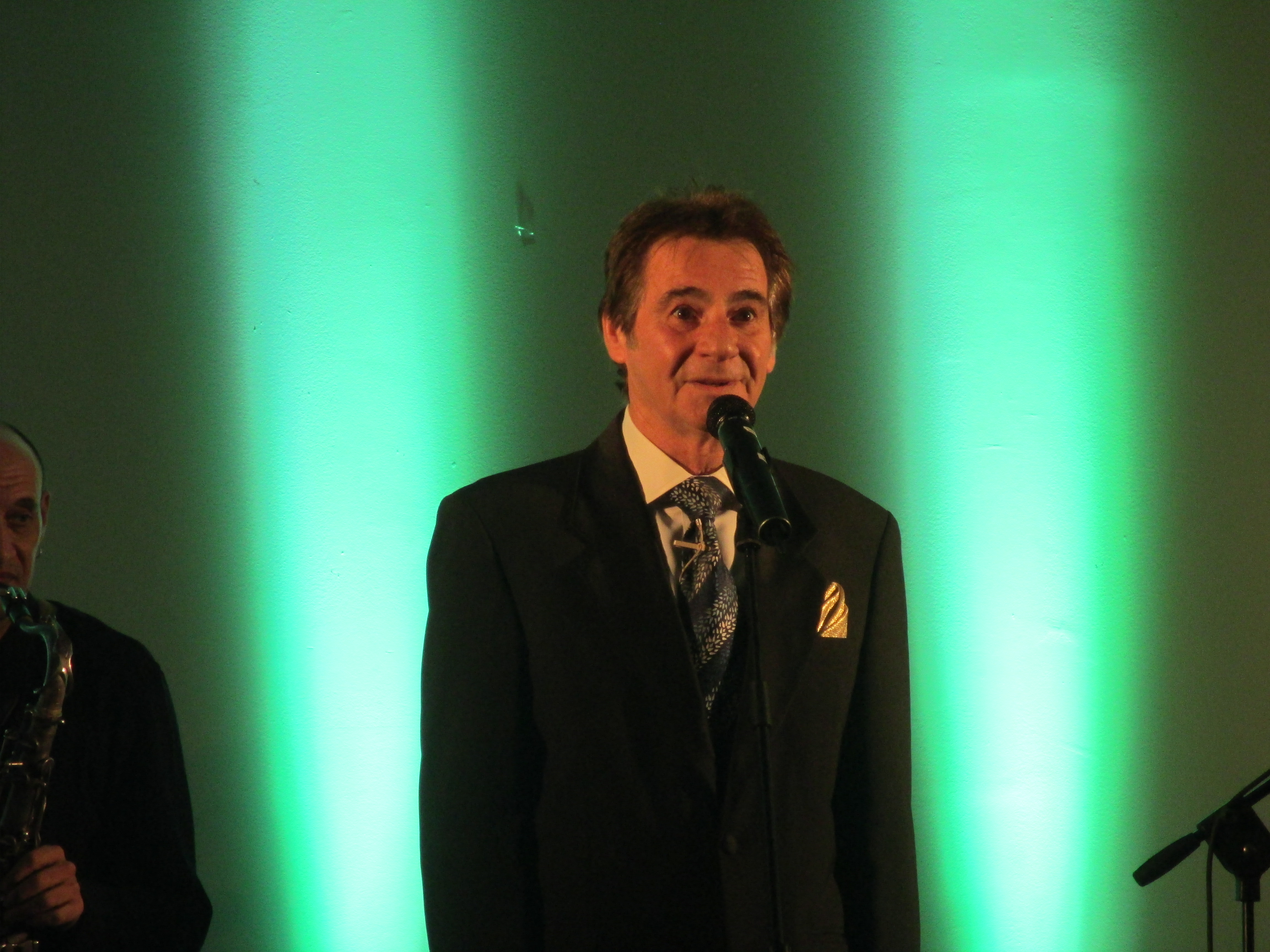 Moti Giladi